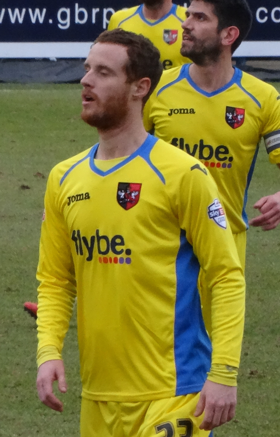 Ryan Harley playing for Exeter City against York City at Bootham Crescent, York on 28 February 2015